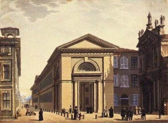 The Fatebenefratelli hospital and the church of Santa Maria in Aracoeli, Milan 1833